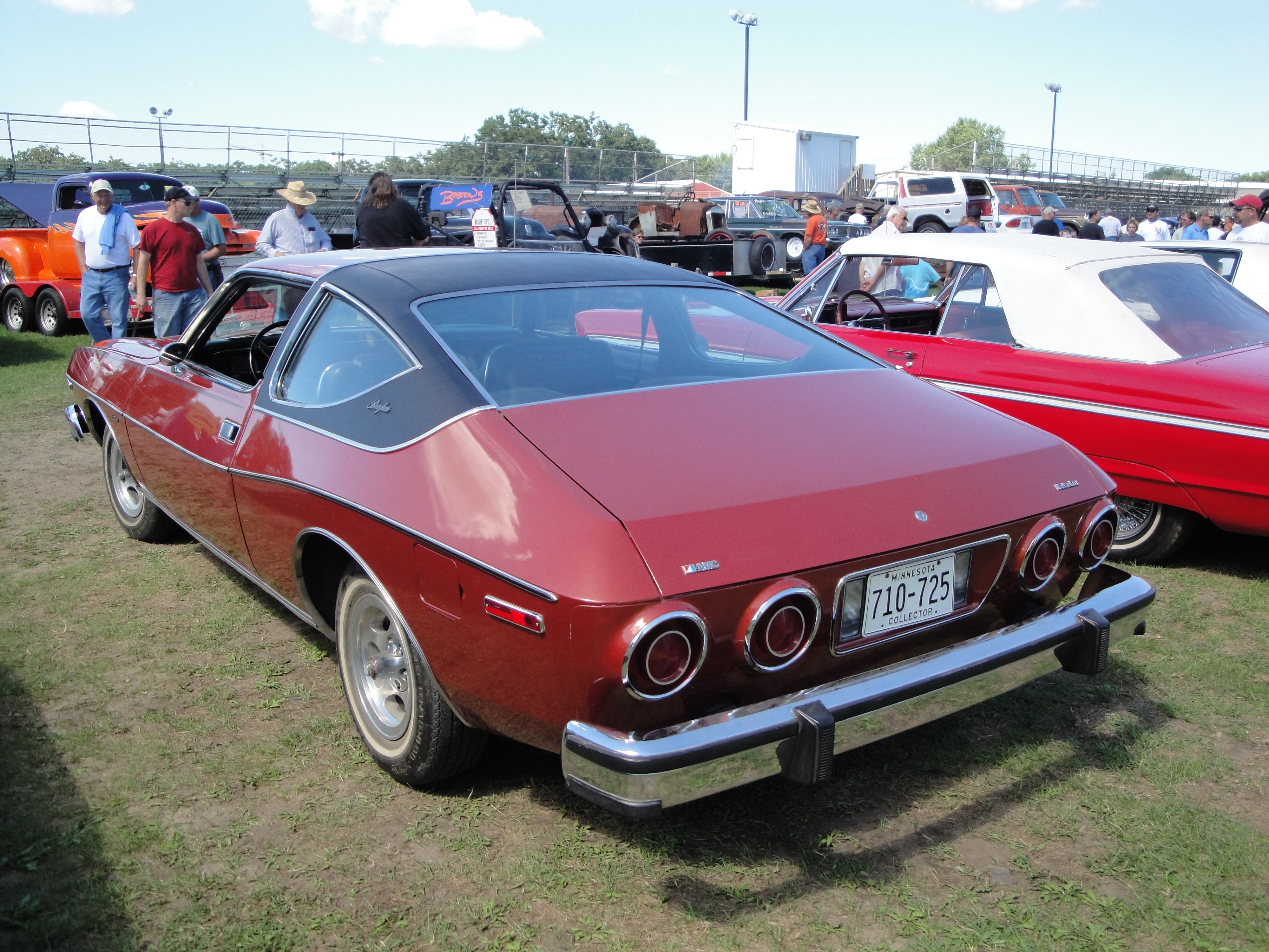 The Pantowners Annual Car Show and Swap Meet Sunday August 21, 2011 (Note: this is not a factory applied vinyl roof treatment)